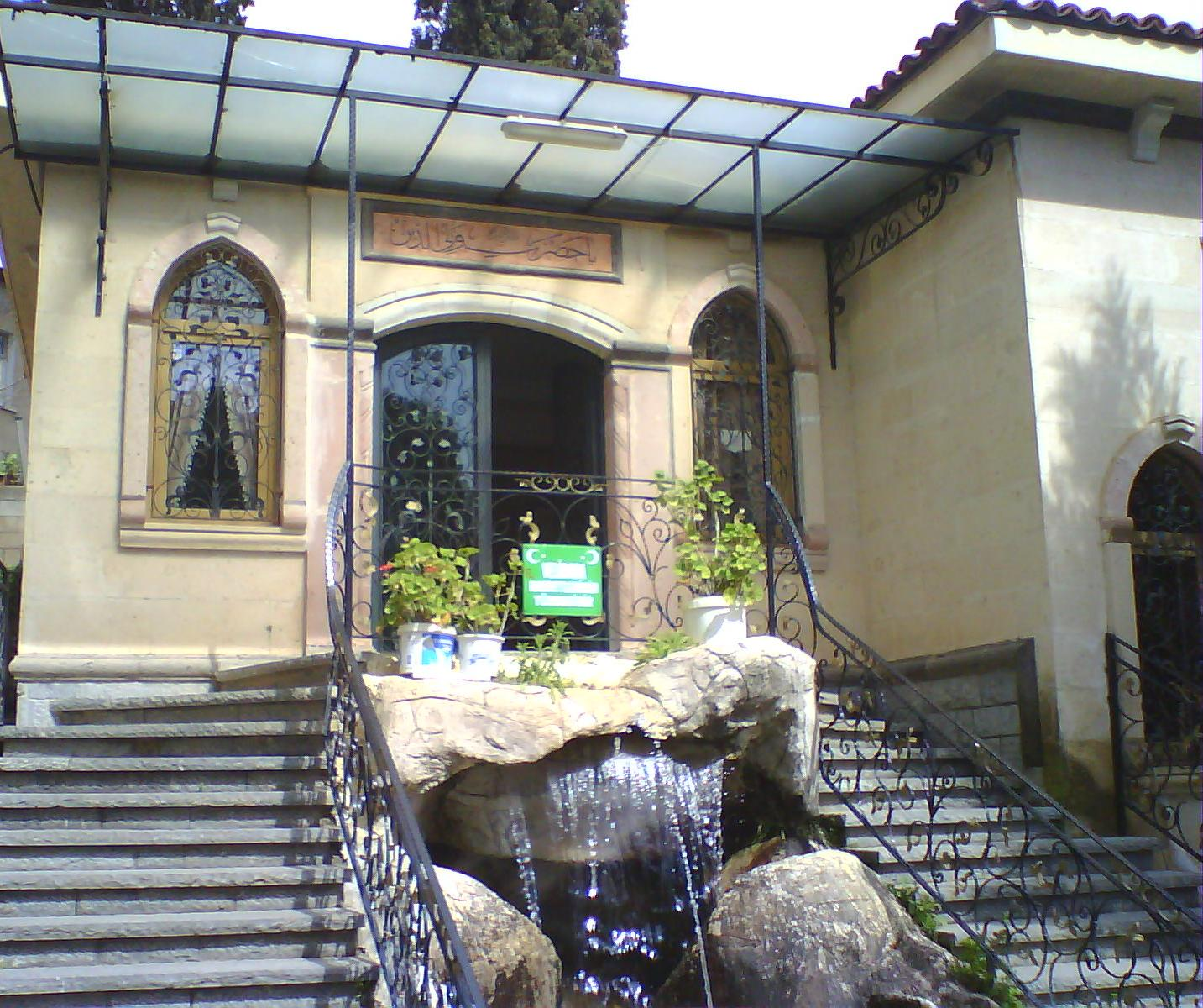 veli baba tombs